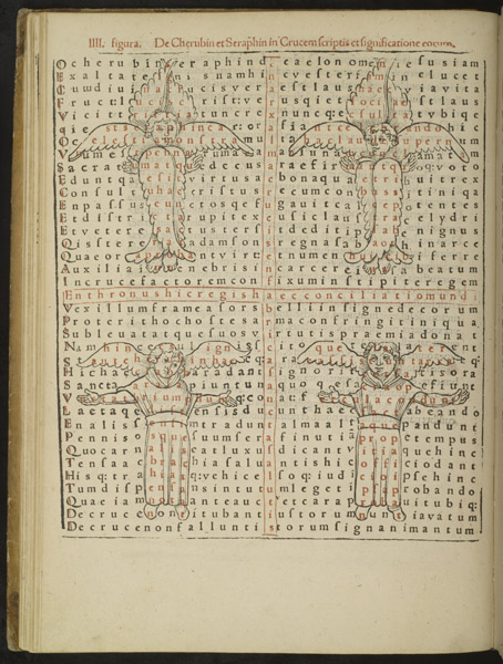 The author of these poems, Rabanus Maurus (784?-856), the Archbishop of Mainz, compiled an early encyclopaedia, wrote commentaries on the Bible, and devised a complicated system of coded poetry. Magnencij Rabani Mauri De Laudib[us] sancte Crucis opus begins with an introduction by the German humanist, writer, and theologian Jakob Wimpheling (dated 1501) and includes 30 full-page poems printed in red and black and combining woodcut and letterpress. The poems are followed by a transcript in ordinary type for the sake of clarity and a Declaratio explaining the whole arrangement. The encrypted poems are composed in a grid of 36 lines each containing 36 letters. Rabanus sometimes incorporated a figure within the grid, creating both a figurative and a literal picture poem. It continues a late classical tradition in its form: it consists of "carmina figurata" where figures were superimposed on the text so that new verses appear, and these verses have a new meaning. Gustav Mahler composed his 8th symphony around one of Rabanus’s poems. (Source: University Library Princeton.) Wimpheling was a contemporary of Johannes Reuchlin. There exists a letter written by Mutianus Rufus to Reuchlin in which the printer's achievement is praised in glowing terms; Reuchlin's cooperation and help in the production must have been considerable. (Source: H. Alberts in Johannes Reuchlin Festschrift, 1955, p. 208.)